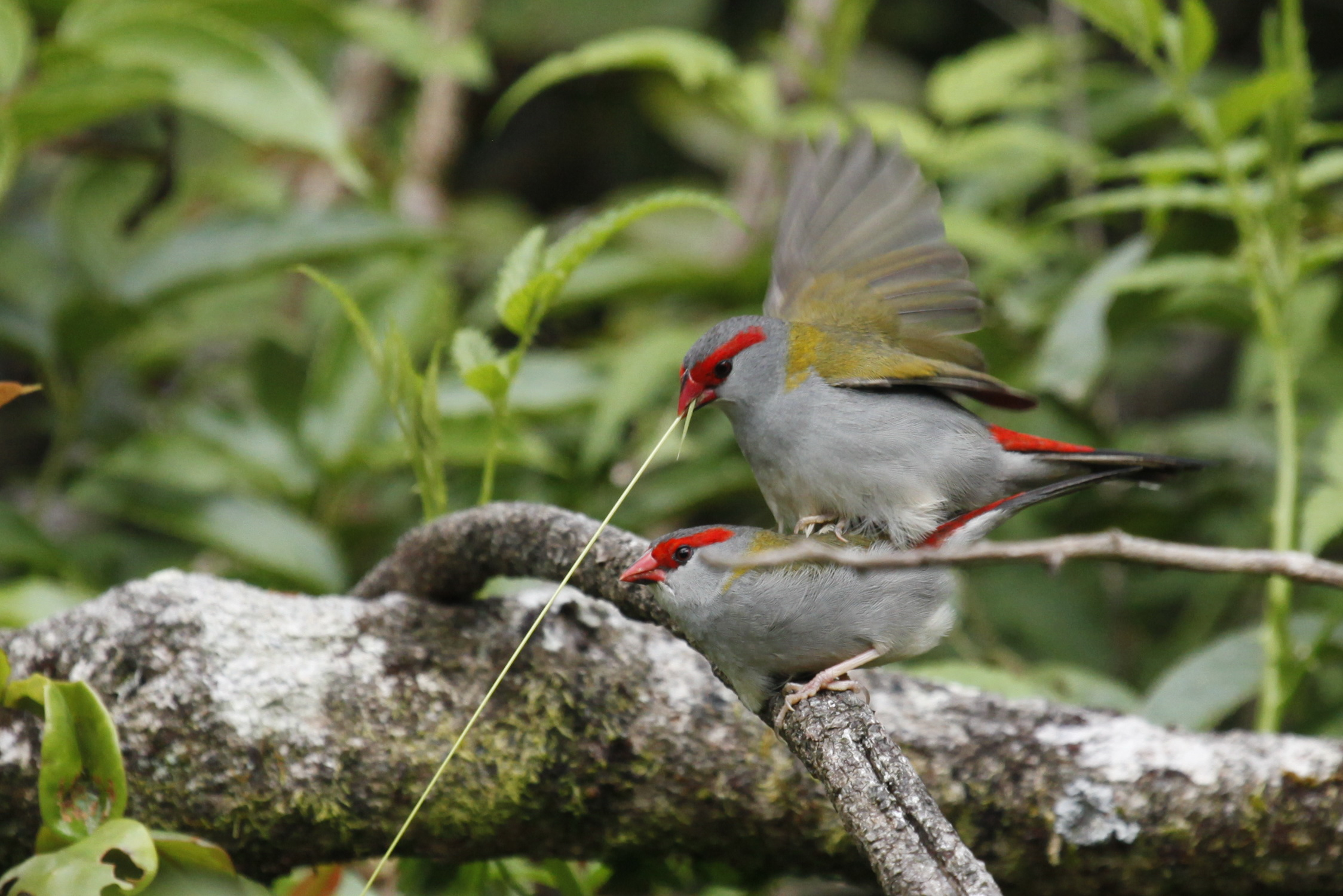 Red-browed finch; wild birds mating at Nightcap National Park, New South Wales, Australia.